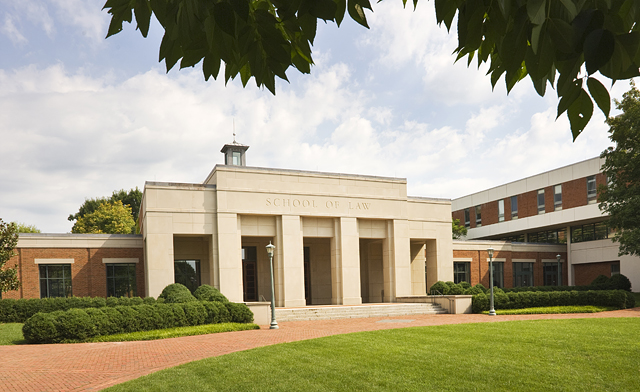 University of Virginia School of Law, front